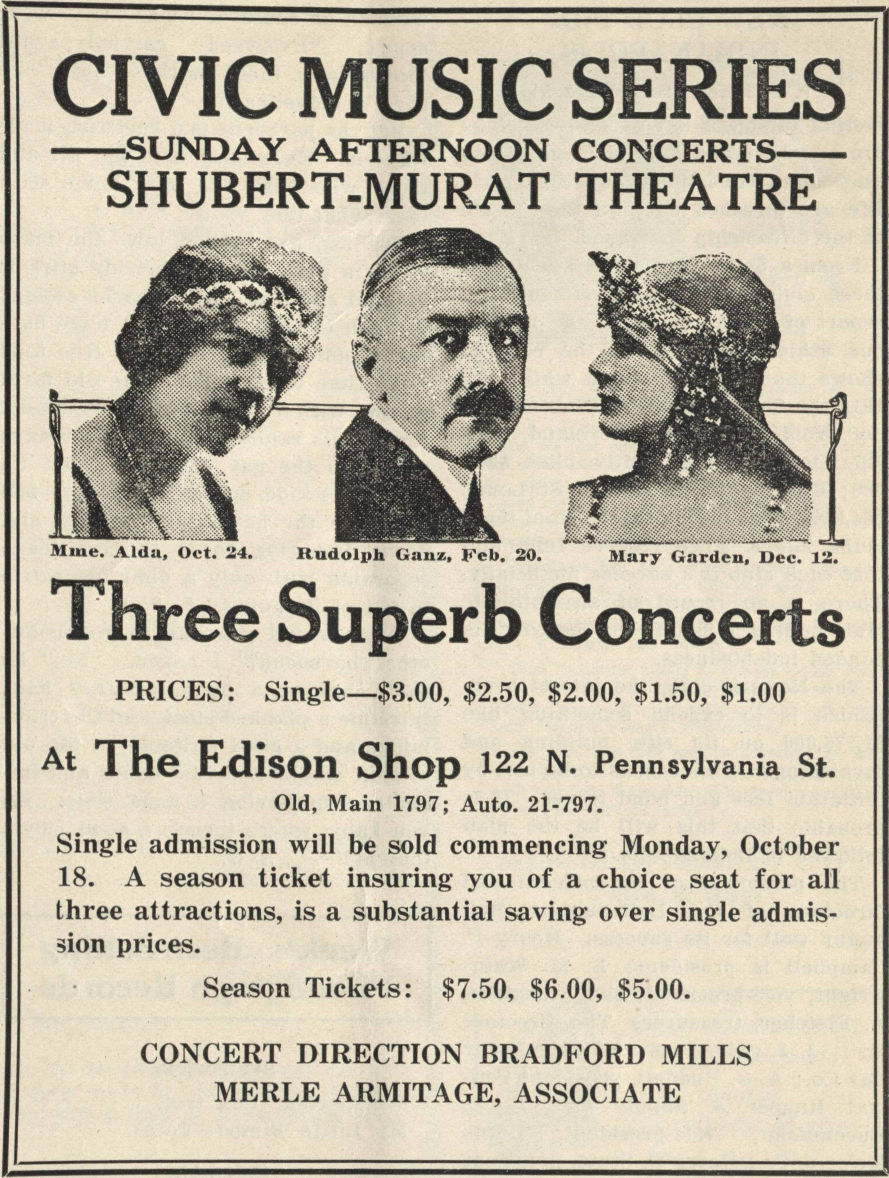 This is an issue of Topics, a magazine about literature, arts, music, and theatre as well as advertising about events and businesses in Indianapolis.